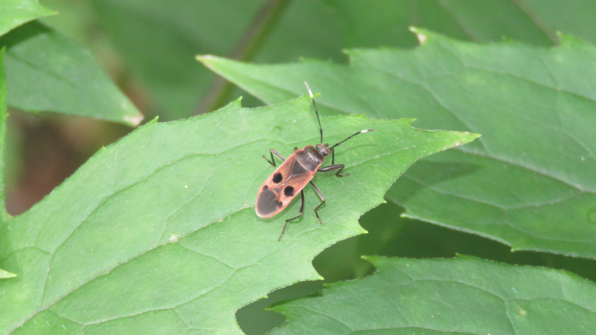 Institute for Nature Study, National Museum of Nature and Science, Shirokane, Tokyo, Japan.